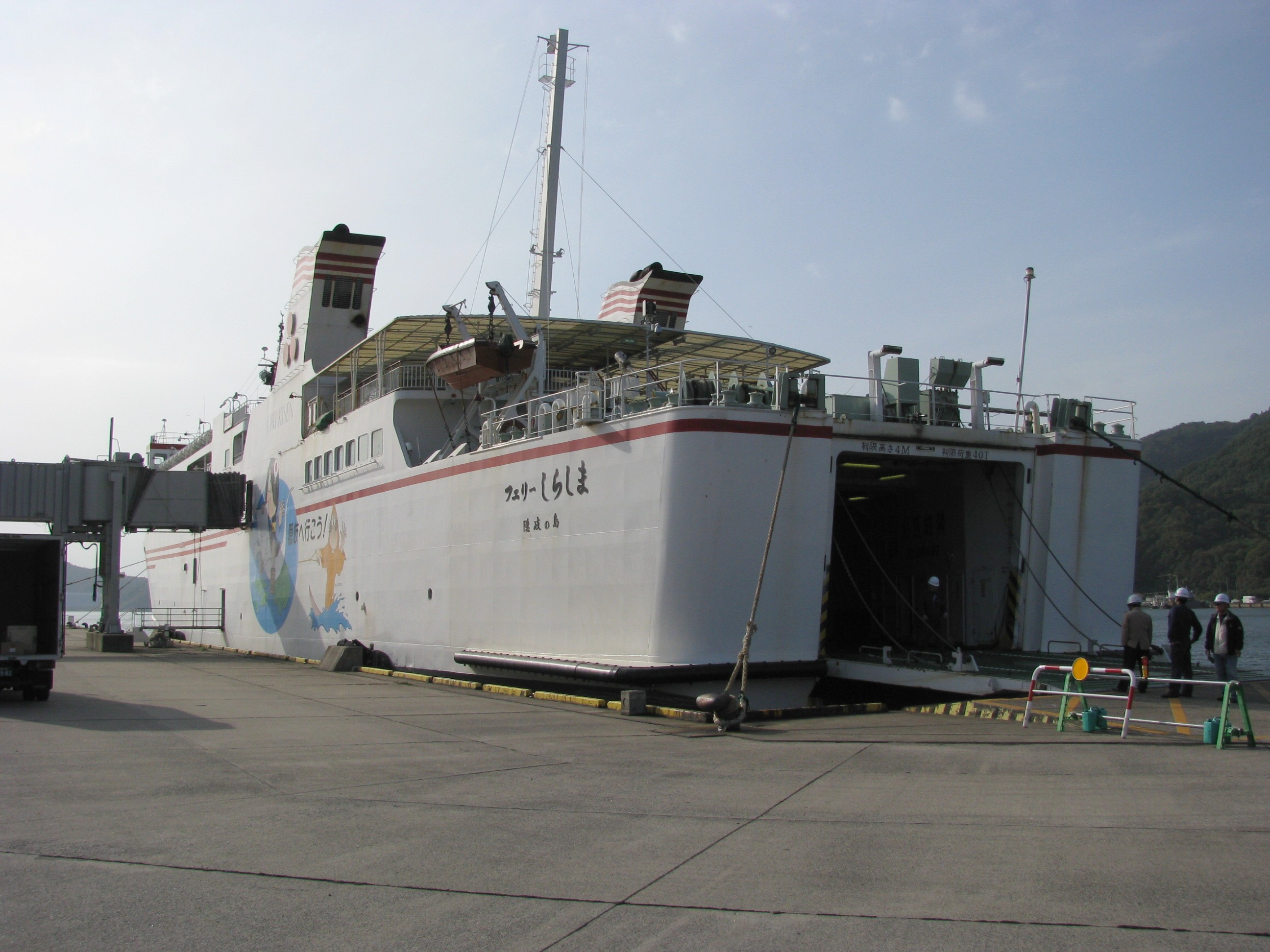 Ferry Shirashima at Sakaiminato, Japan.